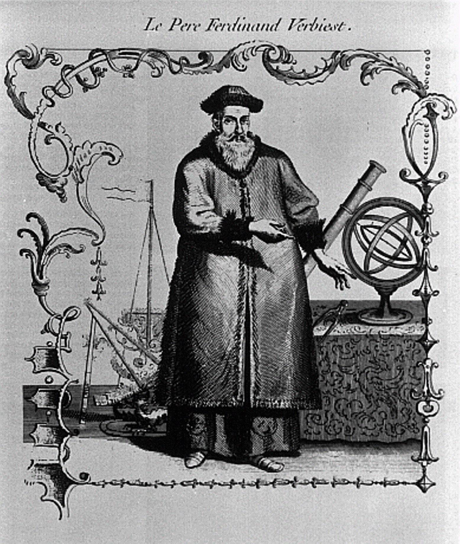 Jesuit missionary Ferdinand Verbiest Detail of engraving taken from image shown in Image:Jesuites en chine.jpg, whose provenance is shown below: description : illustration de la mission chinoise des jésuites Provenance : Portraits gravés in J.B. DU HALDE, Description de la Chine, 1835 … tome 3 page 78-79. Paris, MAE, Bibliothèque. origine web